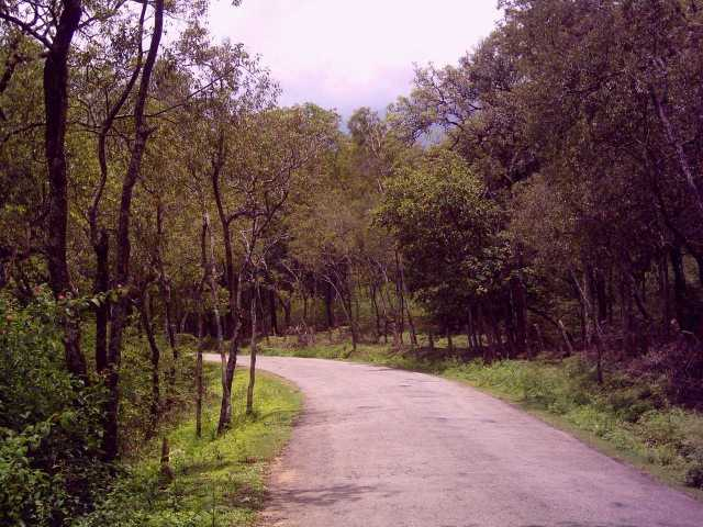 Sandalwood Santalum album forest, near Marayoor, Kerela, India.